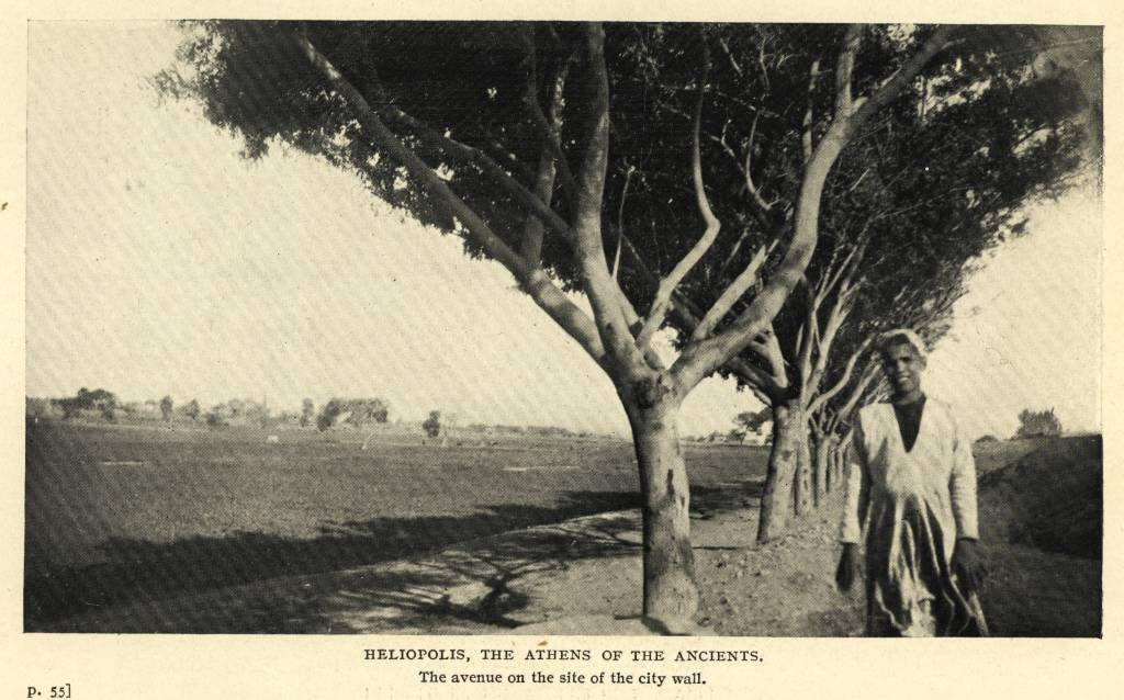 A beautiful vista of a row of trees next to a field on the left and a person to the right.